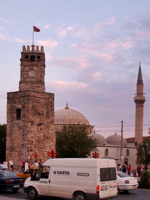 Clock tower in Antalya